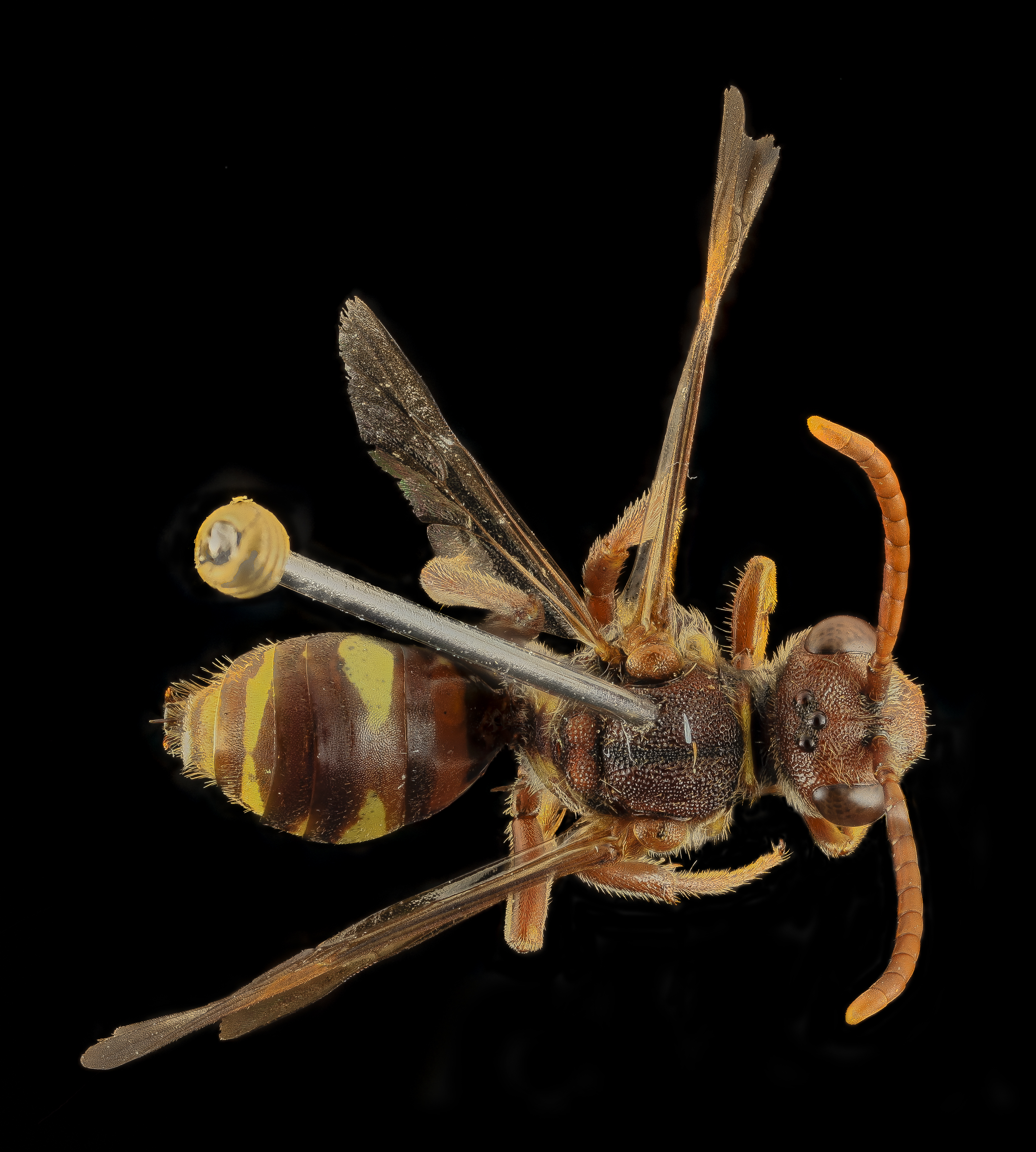 First Maryland record for this species. A possible nest parasite of Andrena wilkella. Picked up at Andelot Farm in Kent County Maryland. Canon Mark II 5D, Zerene Stacker, Stackshot Sled, 65mm Canon MP-E 1-5X macro lens, Twin Macro Flash in Styrofoam Cooler, F5.0, ISO 100, Shutter Speed 200, link to a .pdf of our set up is located in our profile